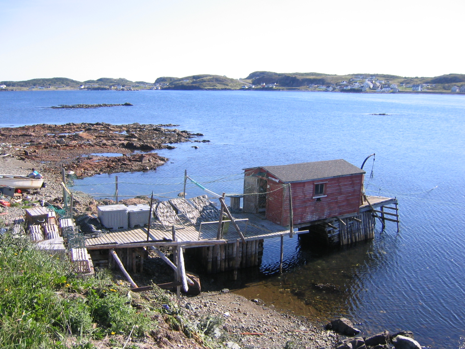 Twillingate, Newfoundland